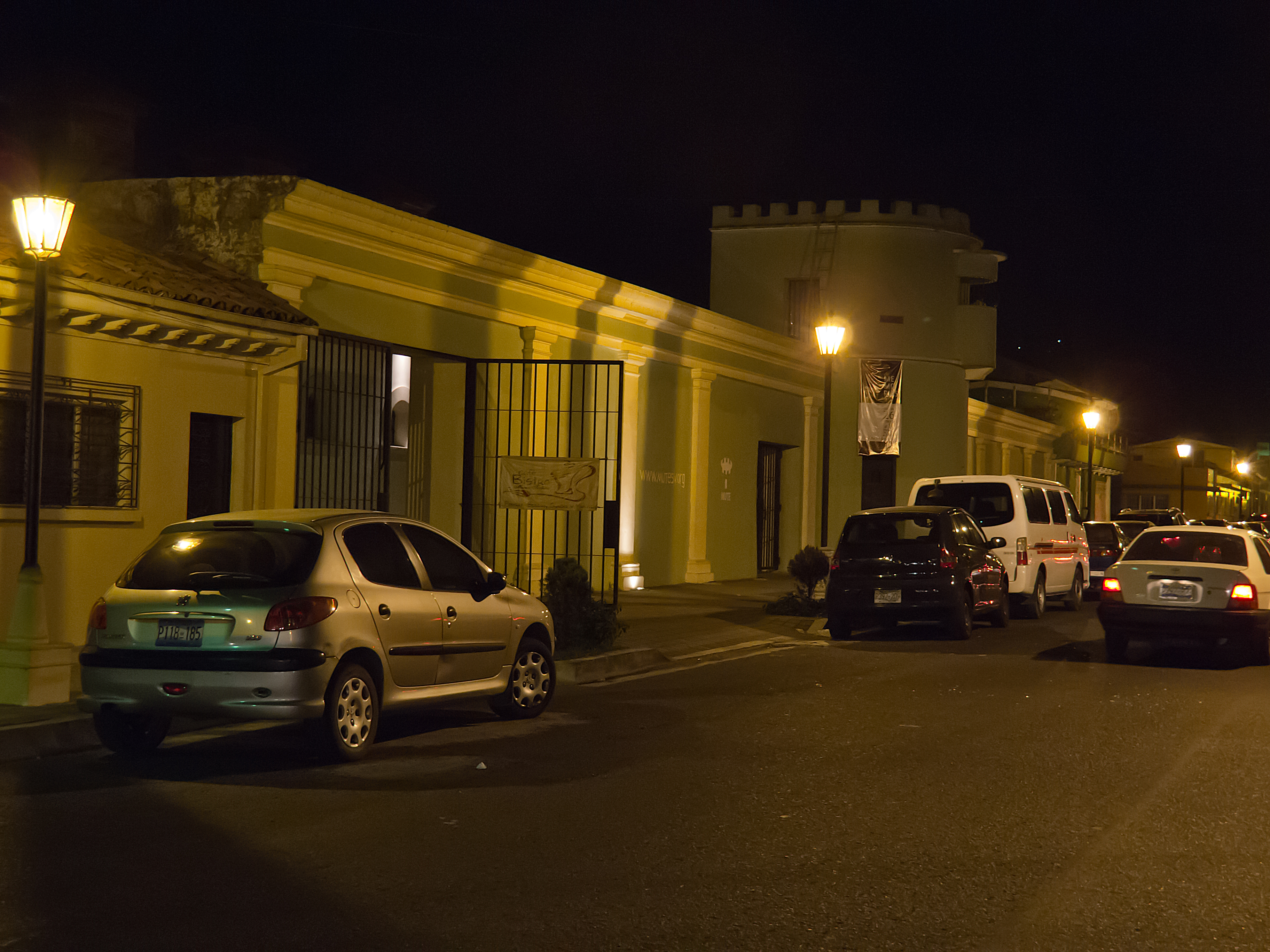 Mutec, the Museum of Santa Tecla, in Santa Tecla, La Libertad, El Salvador